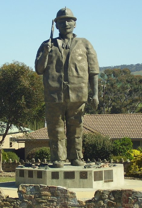 Photo of "Map the Miner", May 2007, on the way into Kapunda, South Australia. Created by Peripitus, uploaded to wikipedia then re-uploaded here